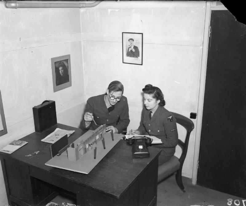 IWM caption : Film director, Flight Lieutenant J E Boulting and a WAAF continuity girl, Leading Aircraftwoman Doreen North, discuss the set-up of a shot in a scene at a railway station from "Journey Together" at No. 1 RAFFPU at Stanmore Park, Middlesex.